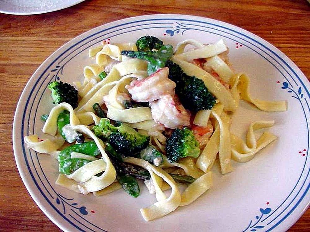 Image title: Shrimp primavera pasta cooking food dinner Image from Public domain images website